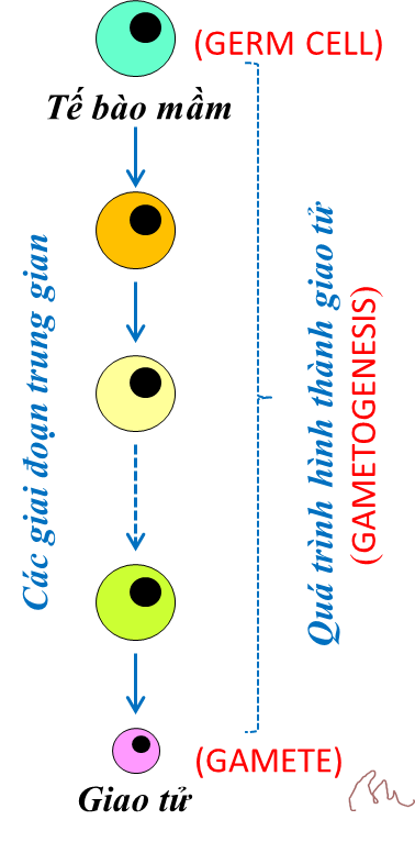 What is germ cell ? (Schema)